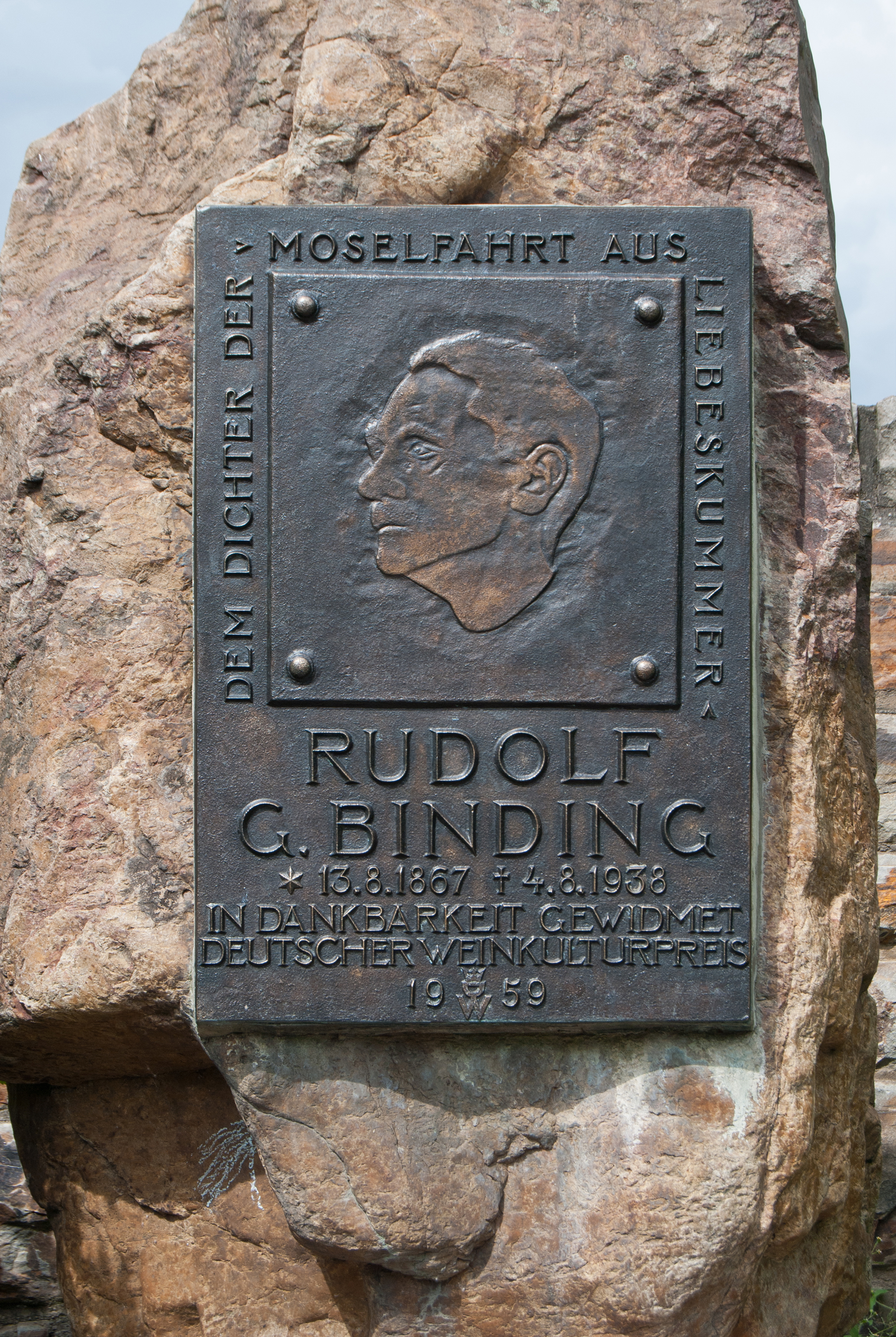 Traben-Trarbach (Rhineland-Palatinate, Germany) – district Trarbach – Rudolf G. Binding memorial – plaque This photograph was taken with a Nikon D3000